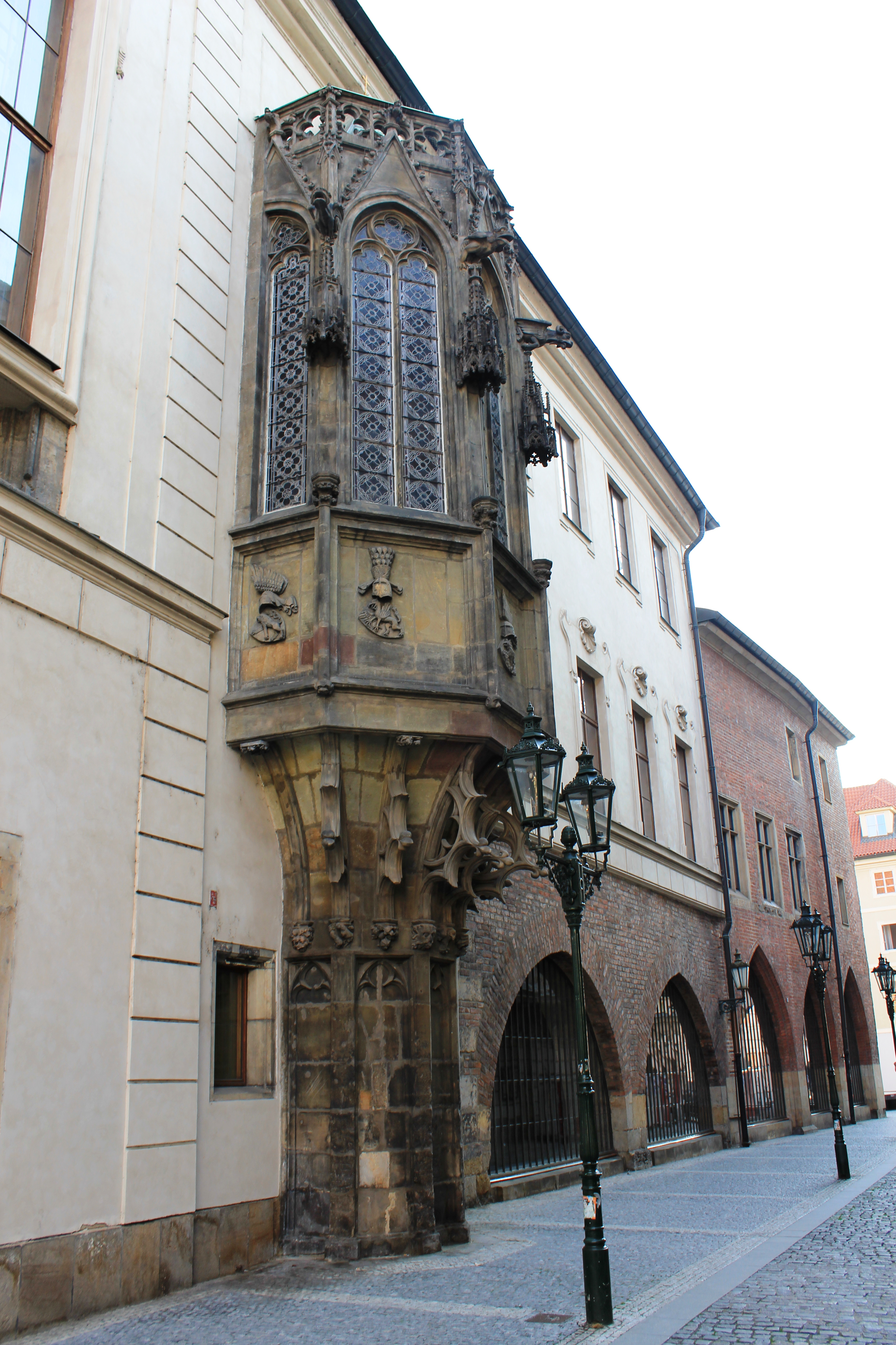 Karolinum bay window